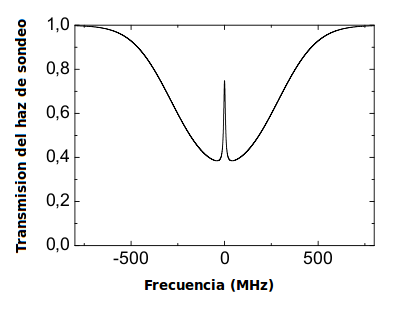 Probe and Pump transmission curve (Doppler-free saturation spectroscopy)